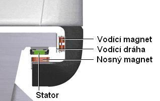 Magnets in Transrapid.